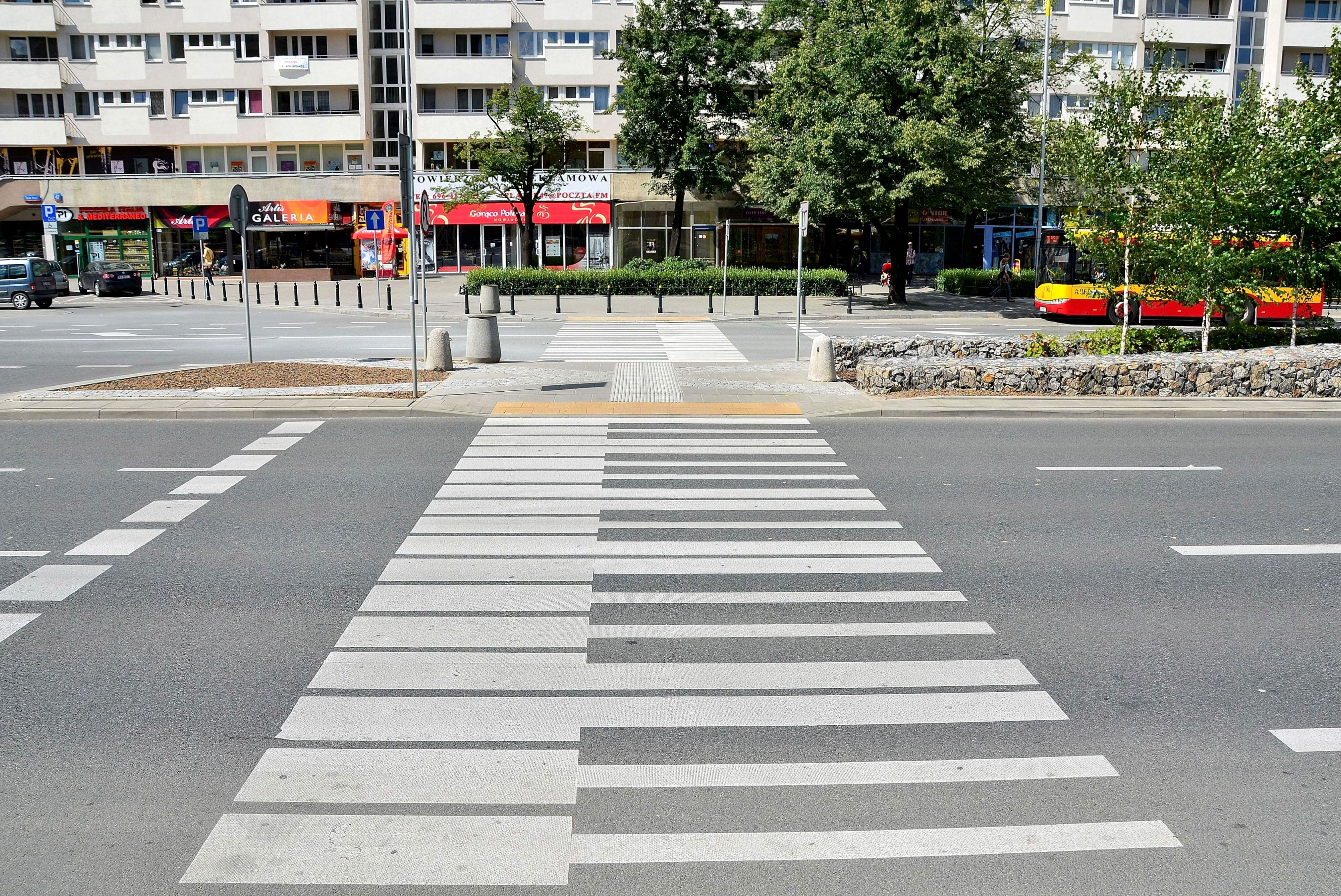 Pedestrian crossing in the form of a piano keybord (Chopin Year 2010) in Emilii Plater Street in Warsaw